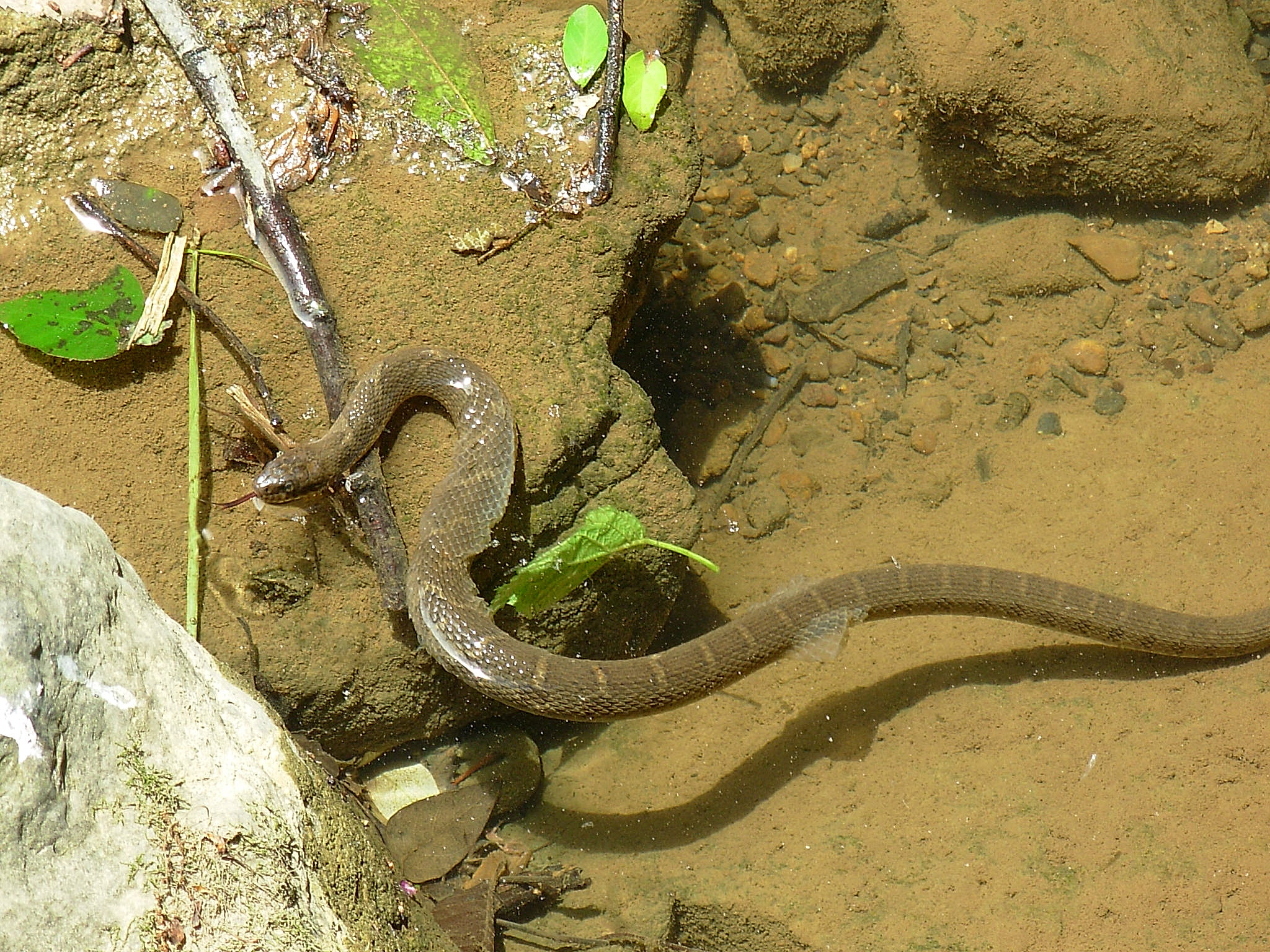 Nerodia sipedon (Northern Water Snake) shedding skin at Natural Bridge, Virginia